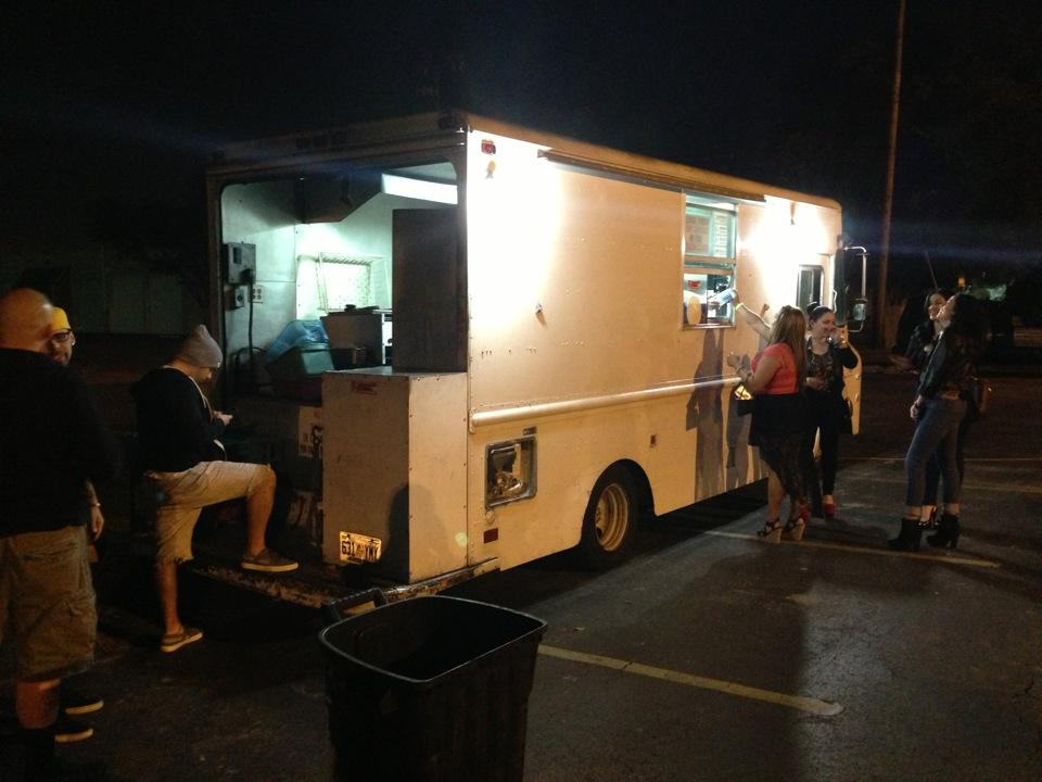 Pincho Mans food truck in Miami, FL. Primarily for the en.wiki article